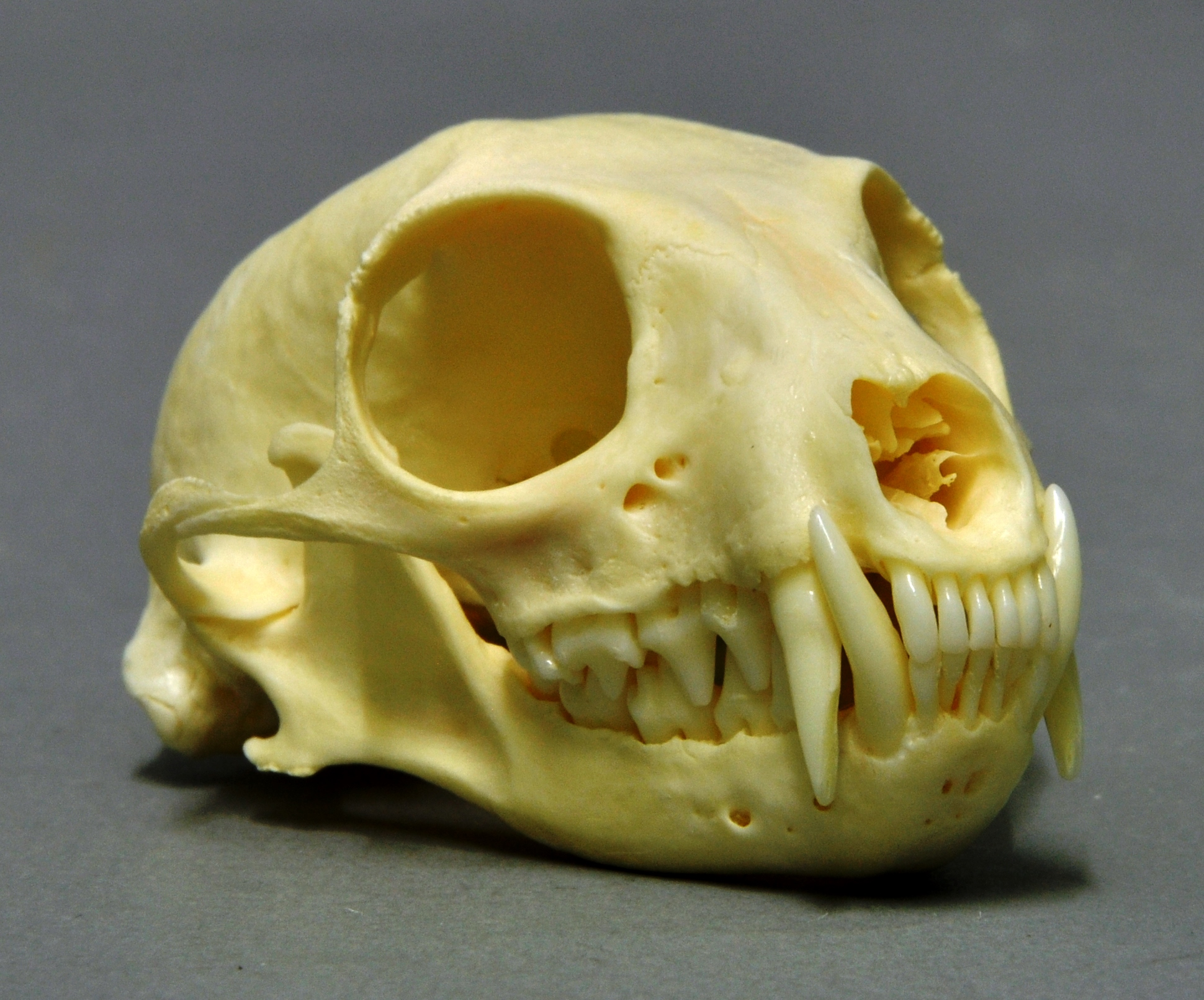 meerkat Suricata suricatta , skull, Coll. Museum Wiesbaden